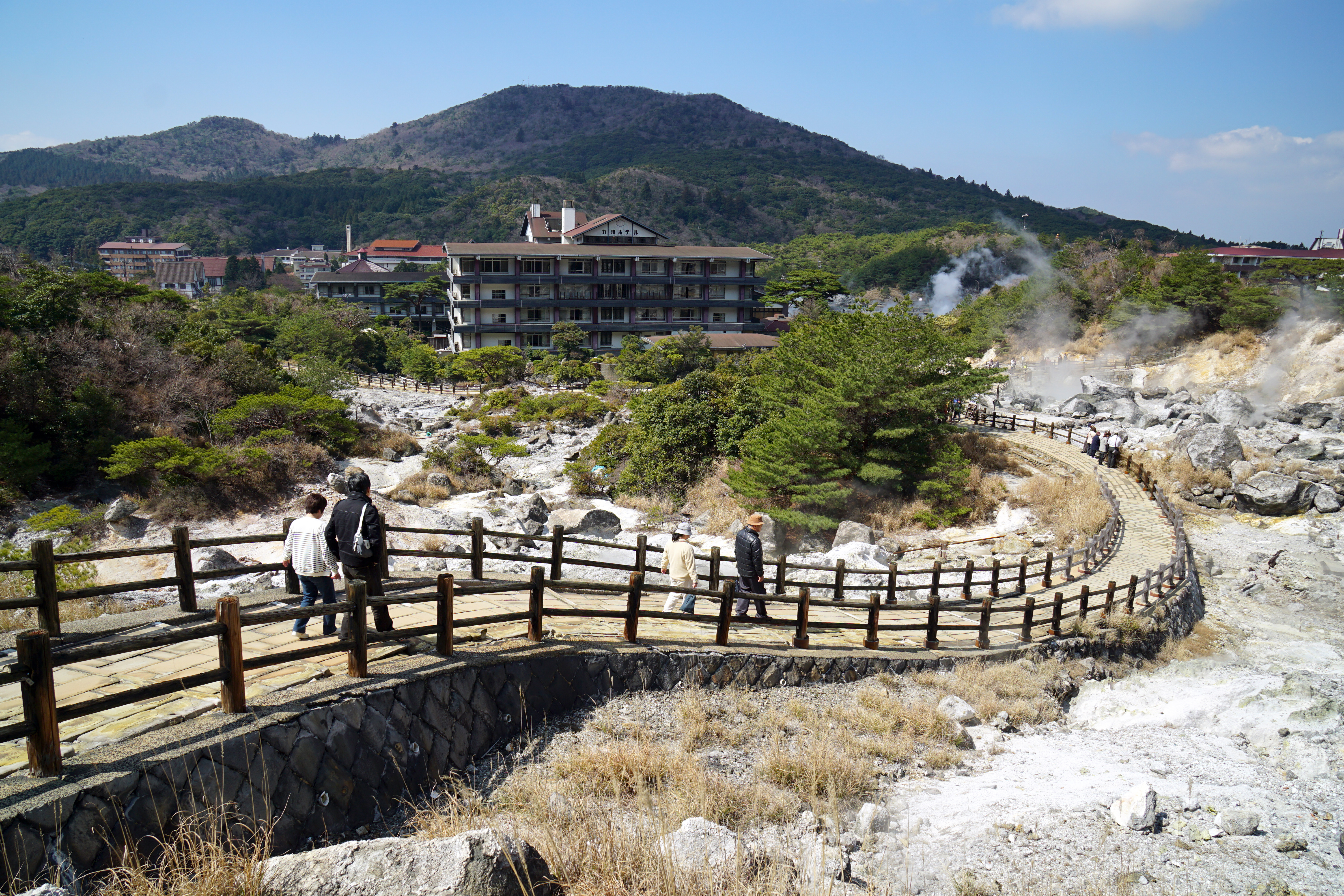 Jigoku of Unzen Onsen in Unzen City, Nagasaki prefecture, Japan.